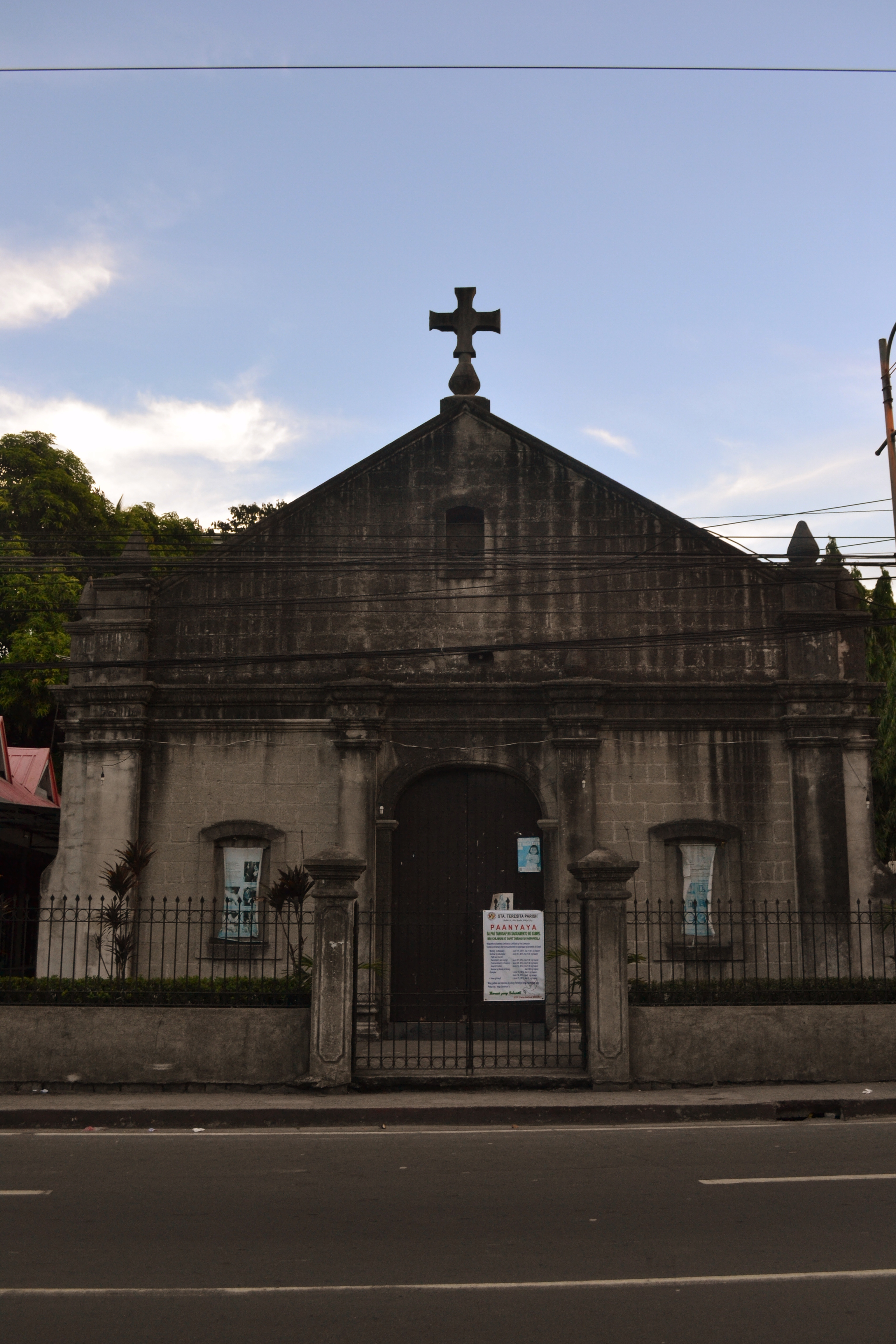 Facade of the chapel dedicated to San Nicolas de Tolentino